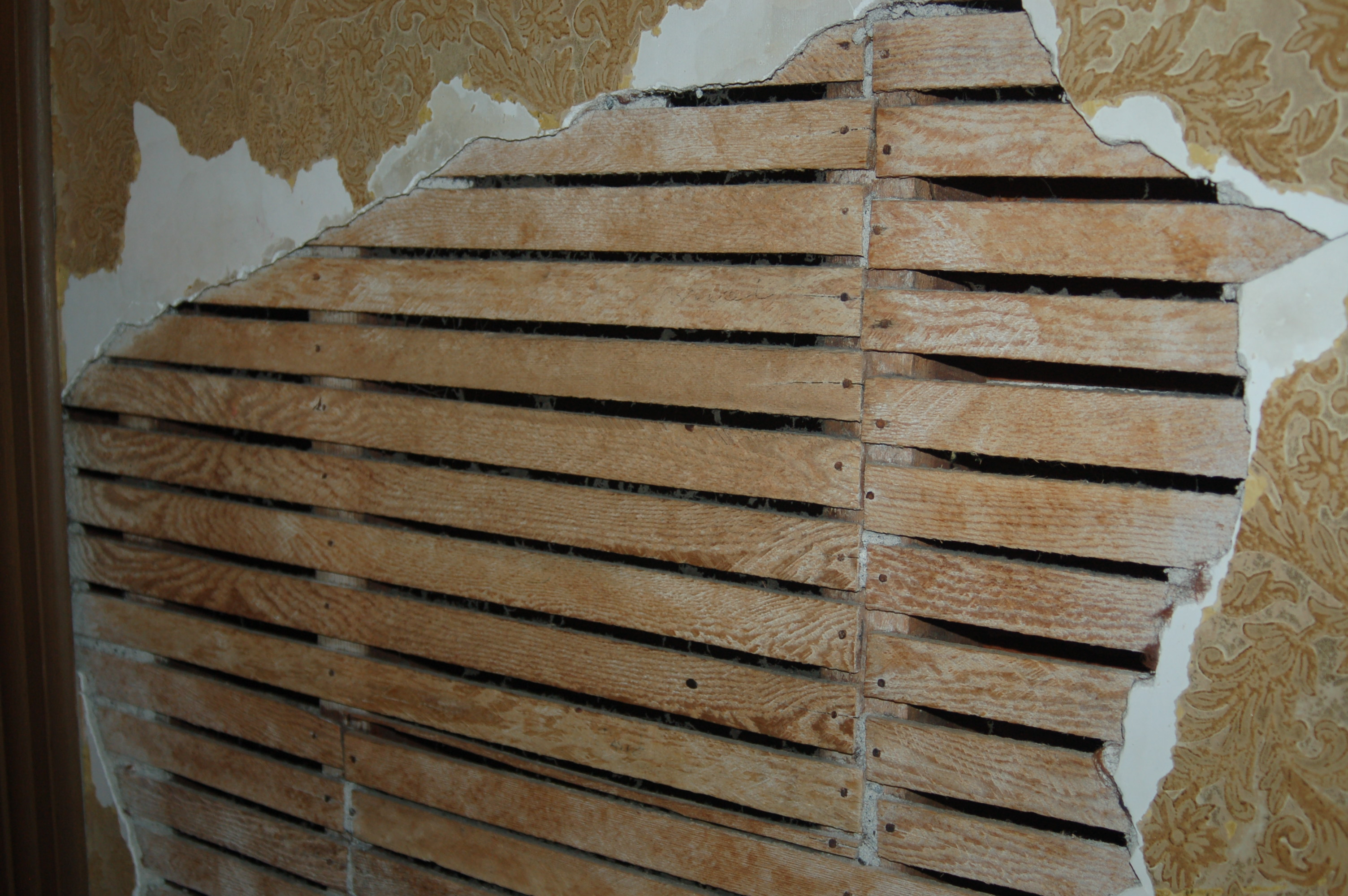 Lathwork and plaster